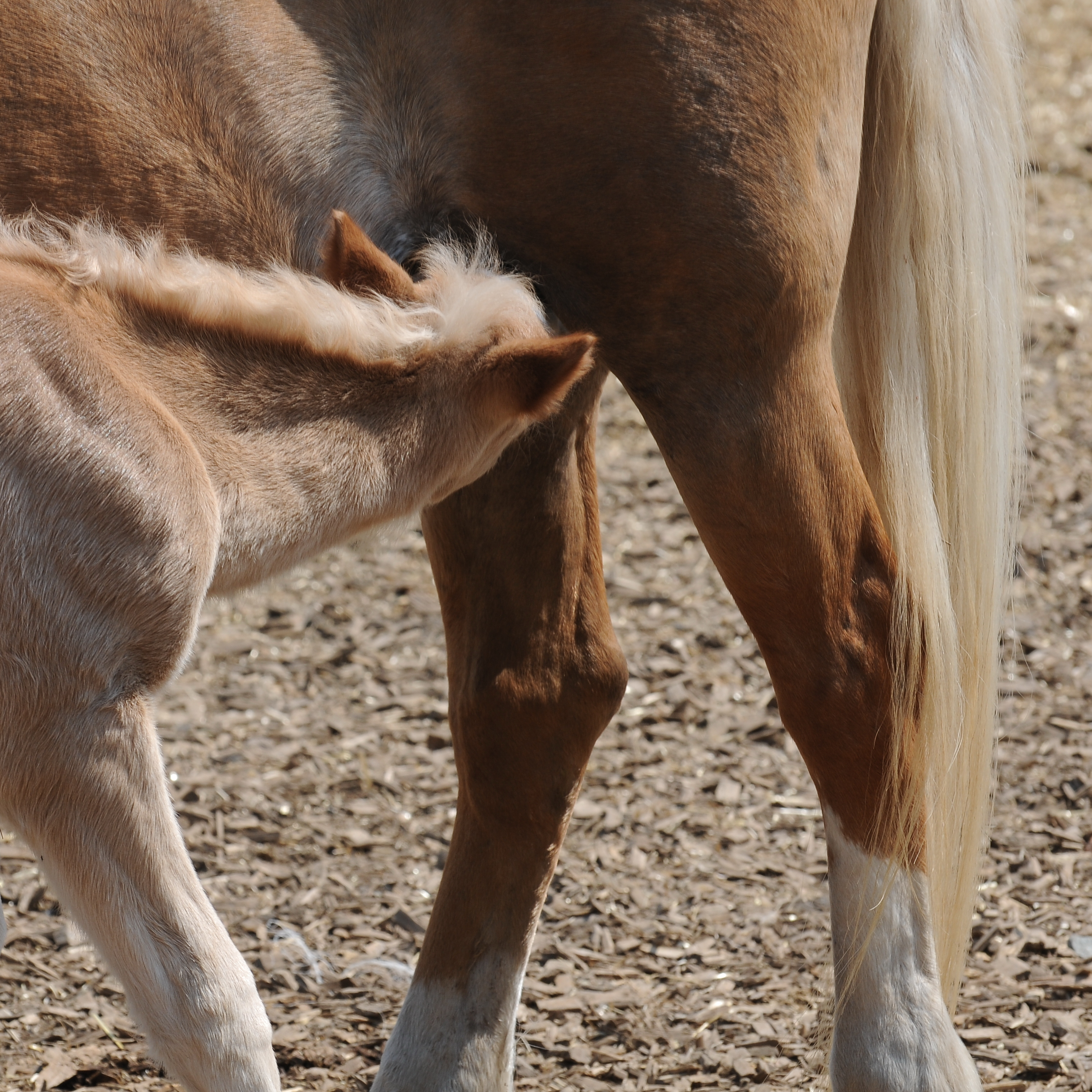 The Haflinger is a breed of horse developed in Austria and northern Italy during the late 1800s.